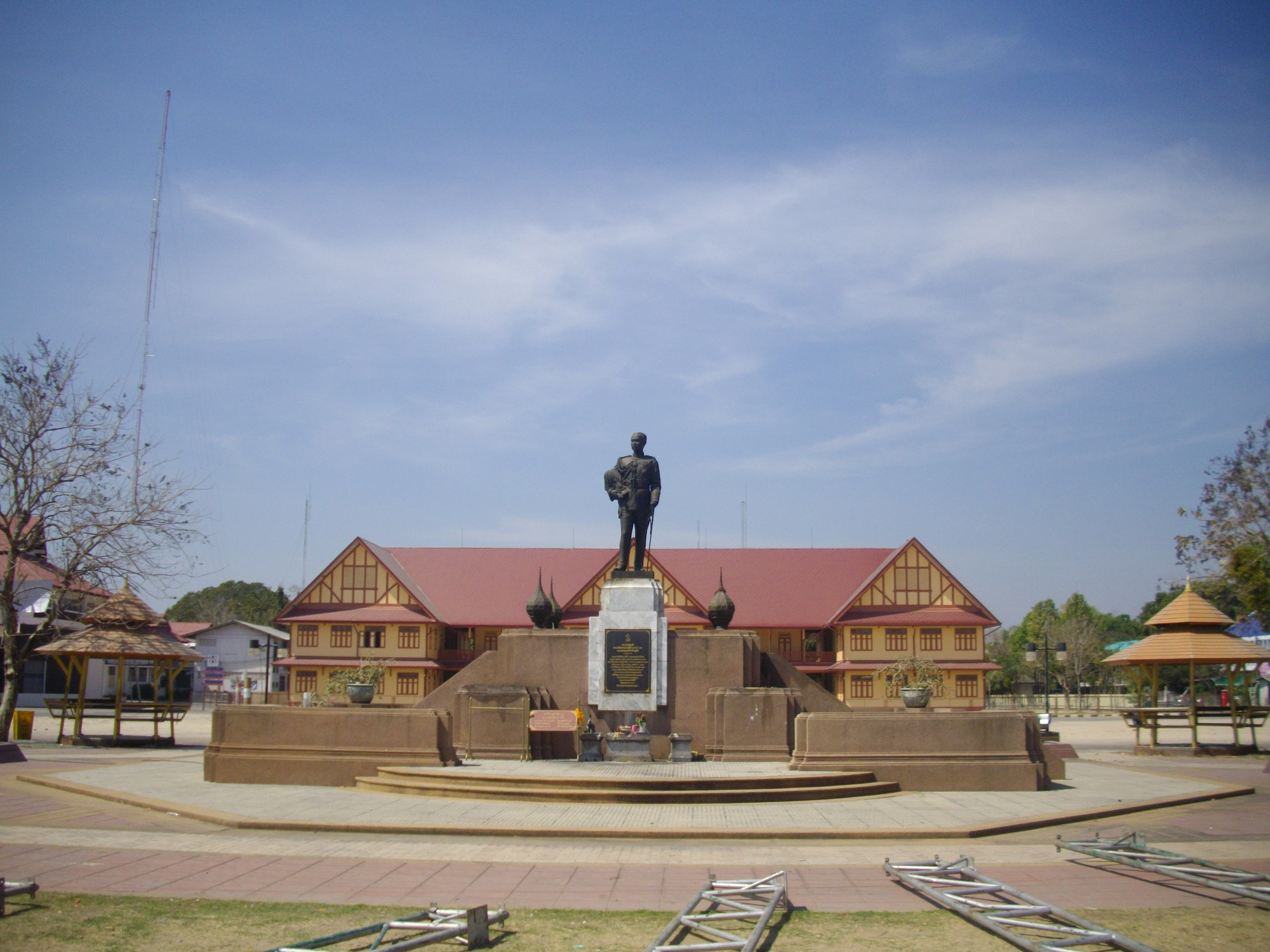 Statue of Rama V at the old building of Benchama Maharat School, Ubon Ratchathani Province, Thailand. Between the statue and the building was the place situated the Ubon Ratchathani Provincial Hall which burnt and destroyed by the UDD Red Shirt in May 19, 2010